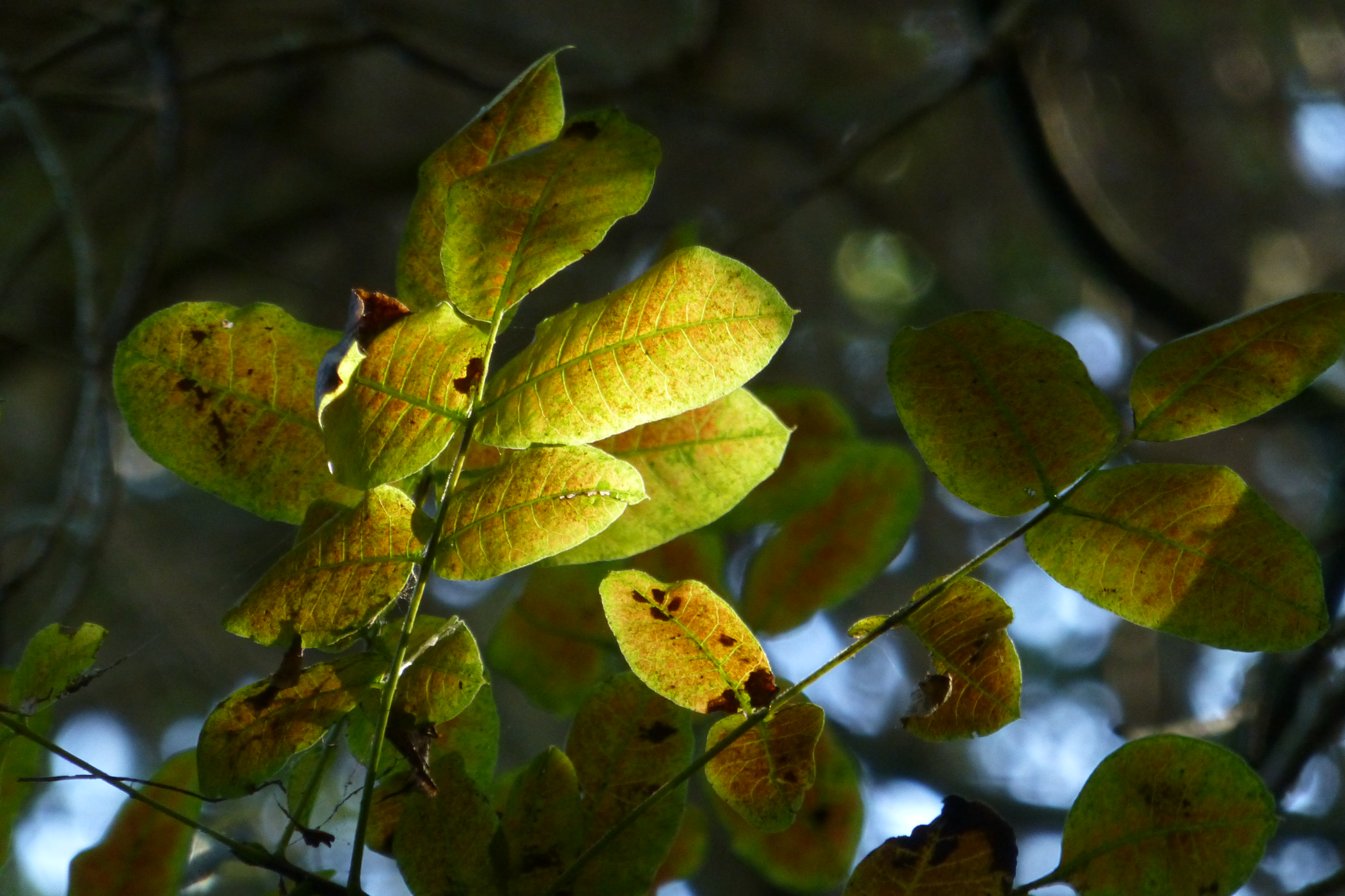 Mount Carmel